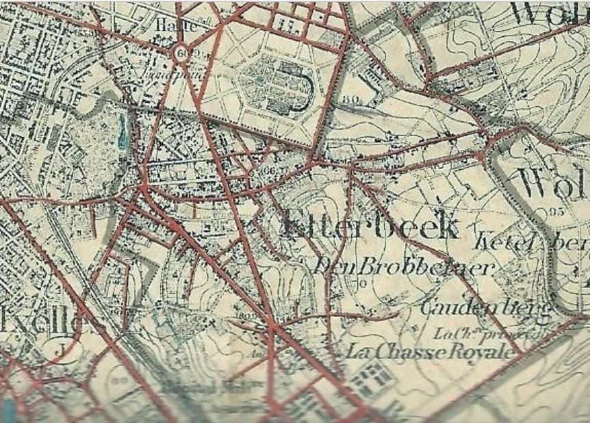 Etterbeek in the Militairy stafmap of Brussels area in 1891